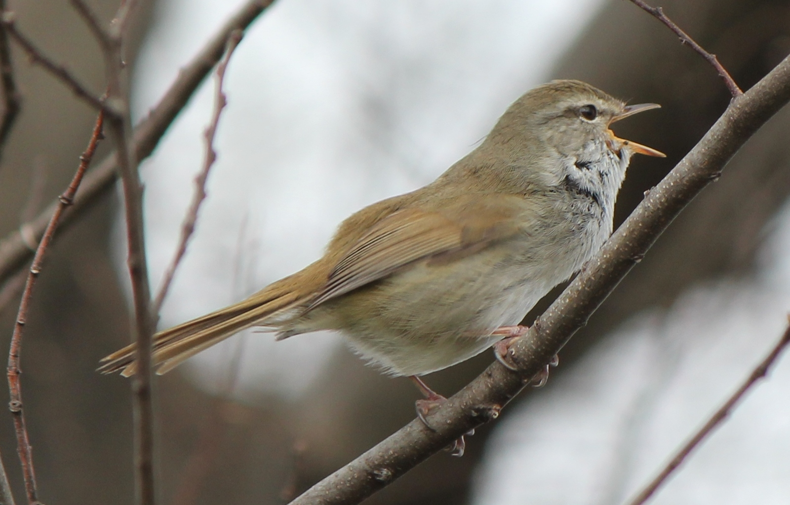 Cettia diphone cantans (Japanese Bush Warbler) crying, male in Aichi prefecture, Japan.